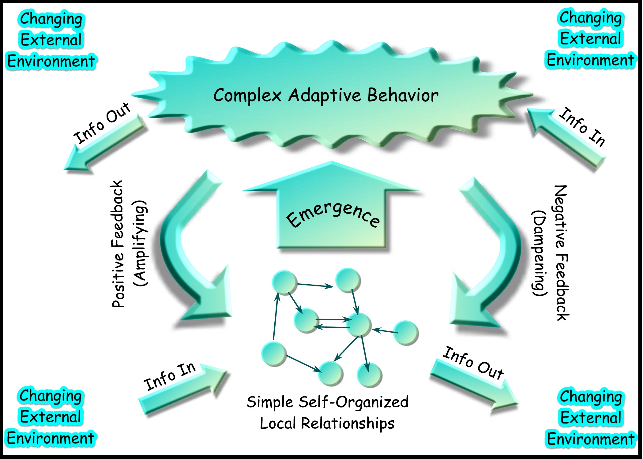 Complex adaptive system : A way of modelling a Complex Adaptive System. A system with high adaptive capacity exerts complex adaptive behavior in a changing environment.